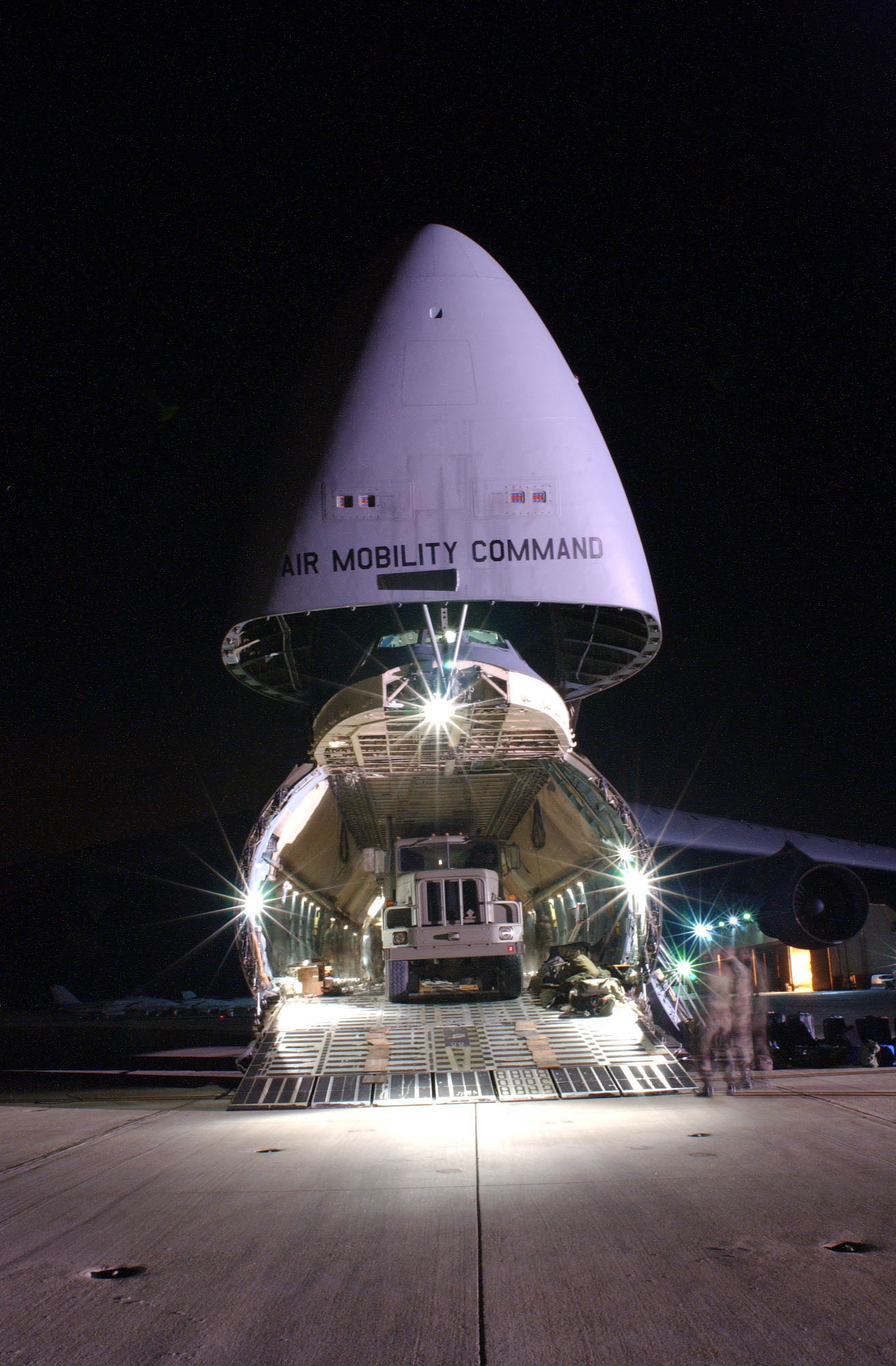 Ventura County, Calif. (Dec. 13, 2002) -- Seabees of Naval Mobile Construction Battalion Forty (NMCB 40) load equipment onto an Air Mobility Command (AMC) C-5 “Galaxy” cargo plane. NMCB 40 is homported at Naval Base Ventura County and is headed for Guam in support of disaster relief efforts after Super Typhoon Pongsona passed over the island on Dec 8, 2002. U.S. Navy photo by Photographer's Mate Airman Lamel J. Hinton. (RELEASED)